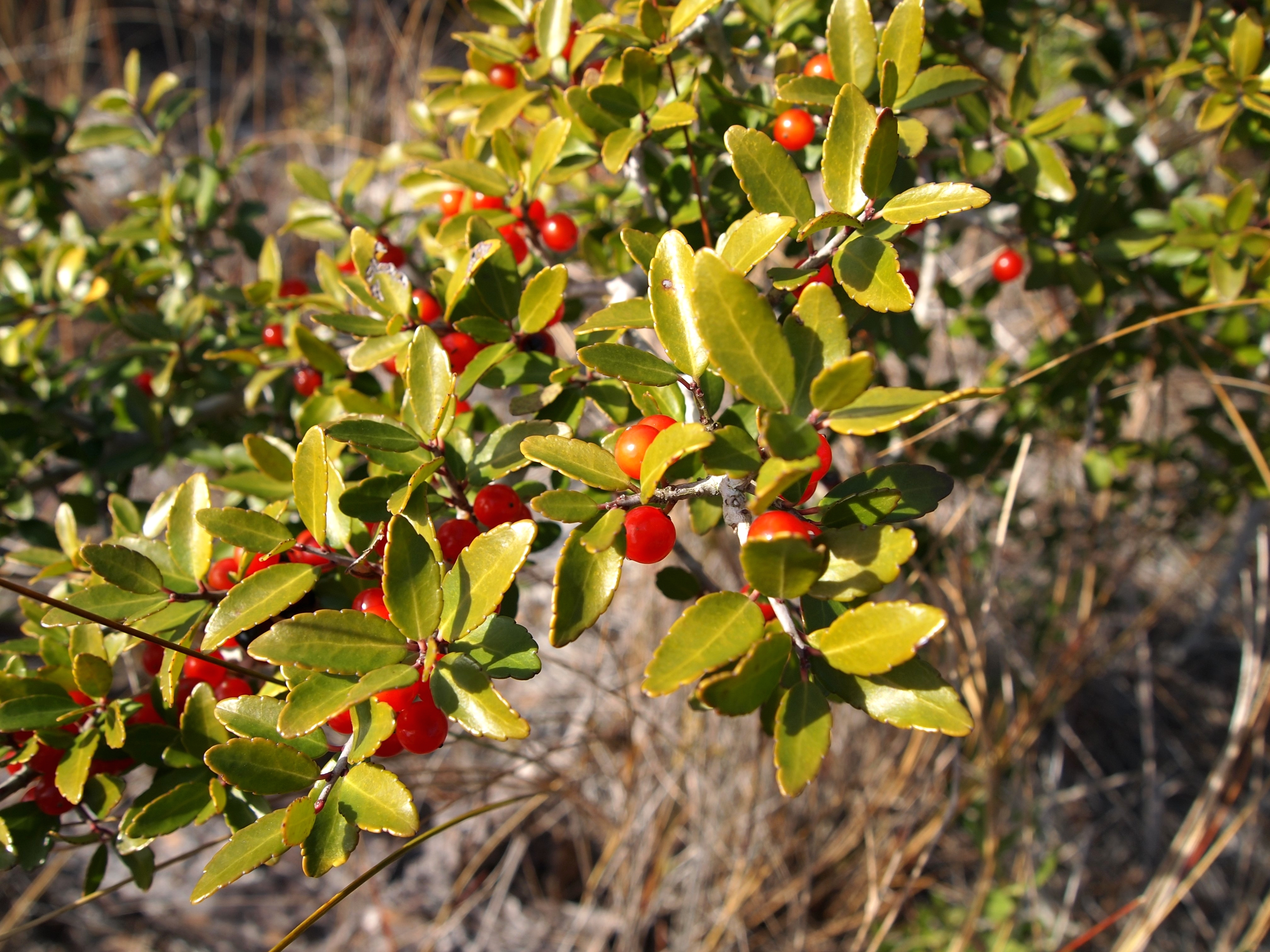 Ilex vomitoria "Yaupon Holly". Photo taken with an Olympus PEN E-PL1 in Pensacola, Escambia, Florida